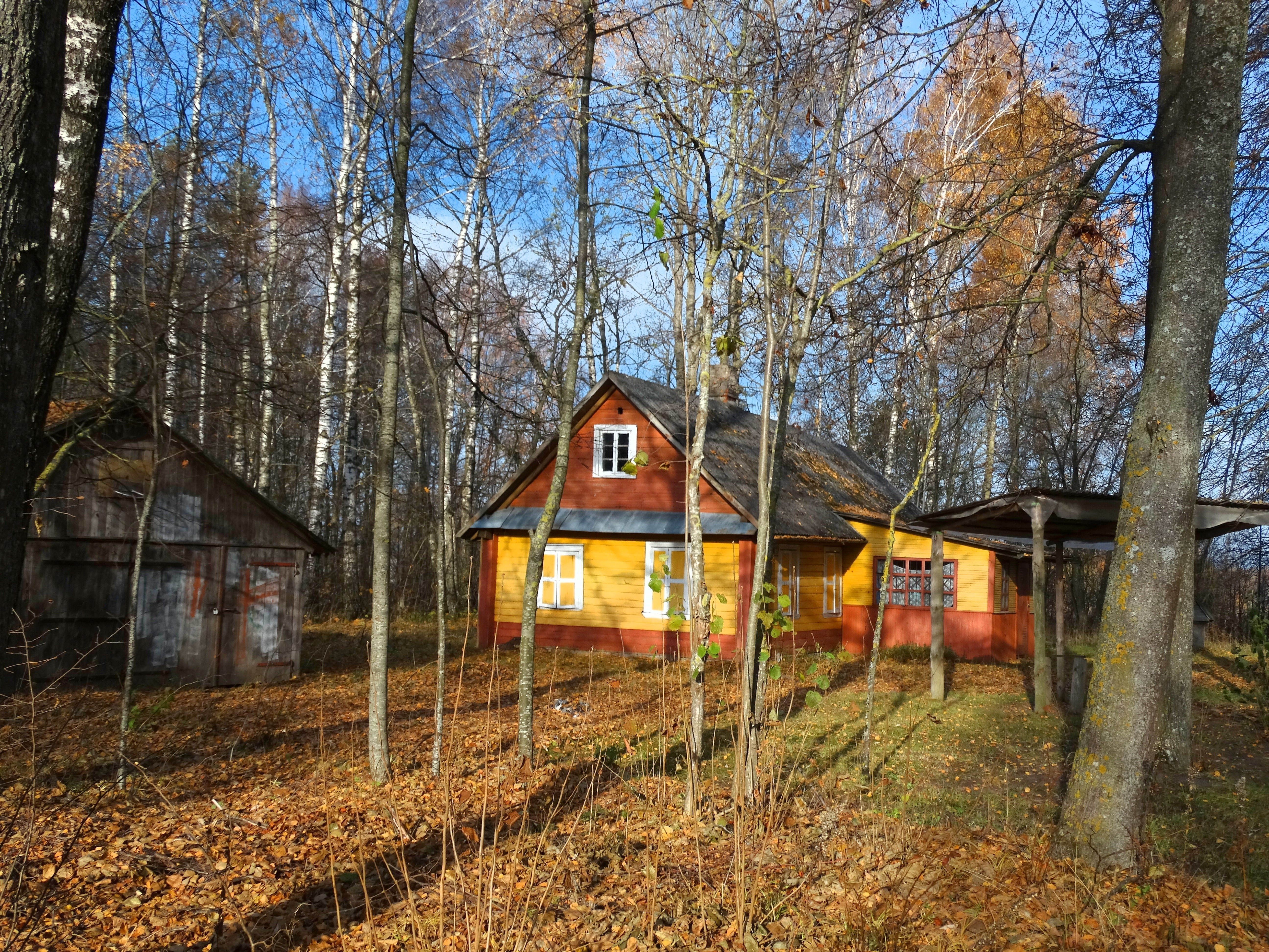 Gegabrasta, Pasvalys district, Lithuania